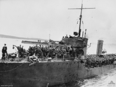 AWM caption : "Mudros, Greece. April 1915. Australian soldiers of the 11th Battalion crowd the deck of River class destroyer HMS Chelmer."